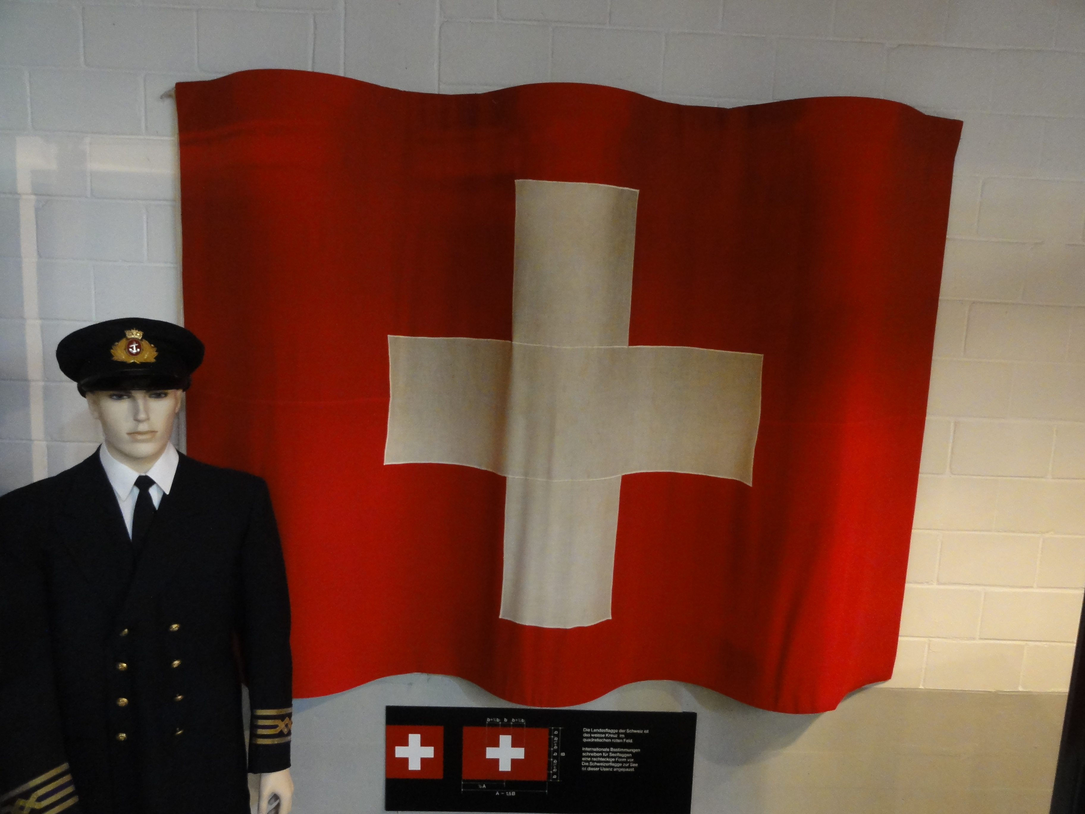 Ensign of the Merchant Marine of Switzerland (at sea)